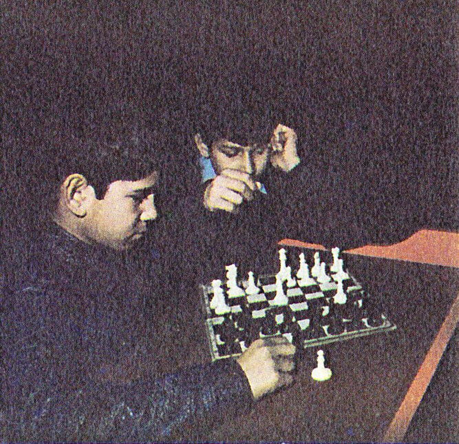 Kanoon-e PArvaresh, children playing chess, Iran